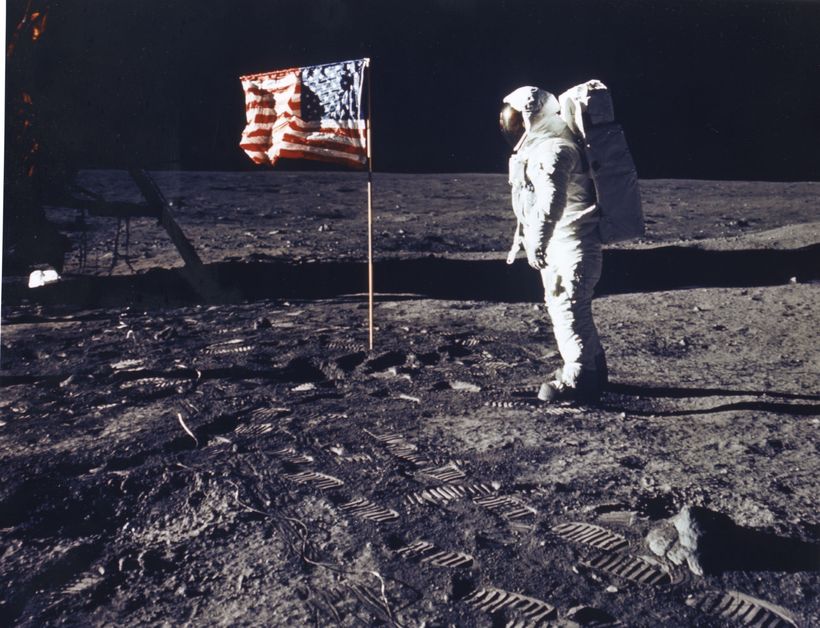 Buzz Aldrin walks on the moon. He was the second man after Neil Armstrong to walk on the moon on July 20, 1969